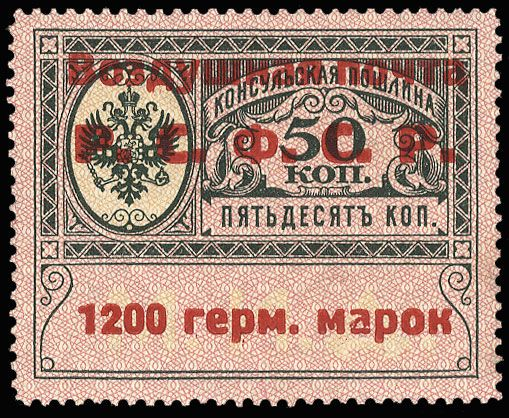 RSFSR. Consular stamp